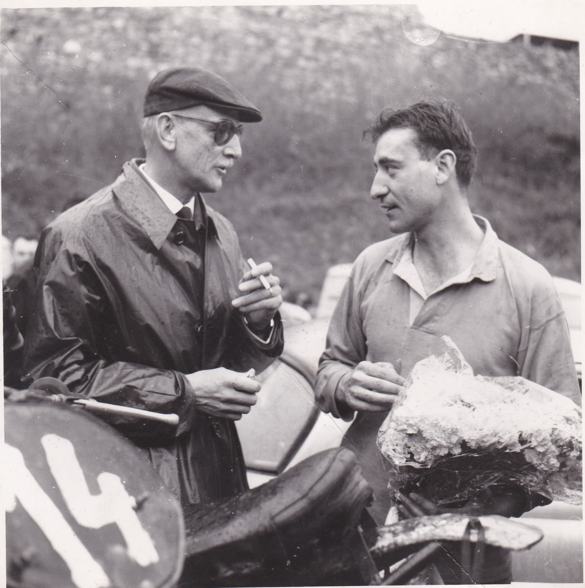 Oriol Puig Bultó (right) with his uncle, Paco Bultó, after winning the Spanish 250cc Motocross Championship in 1963, at the Circuit of Aiete in San Sebastian (Basque Country)